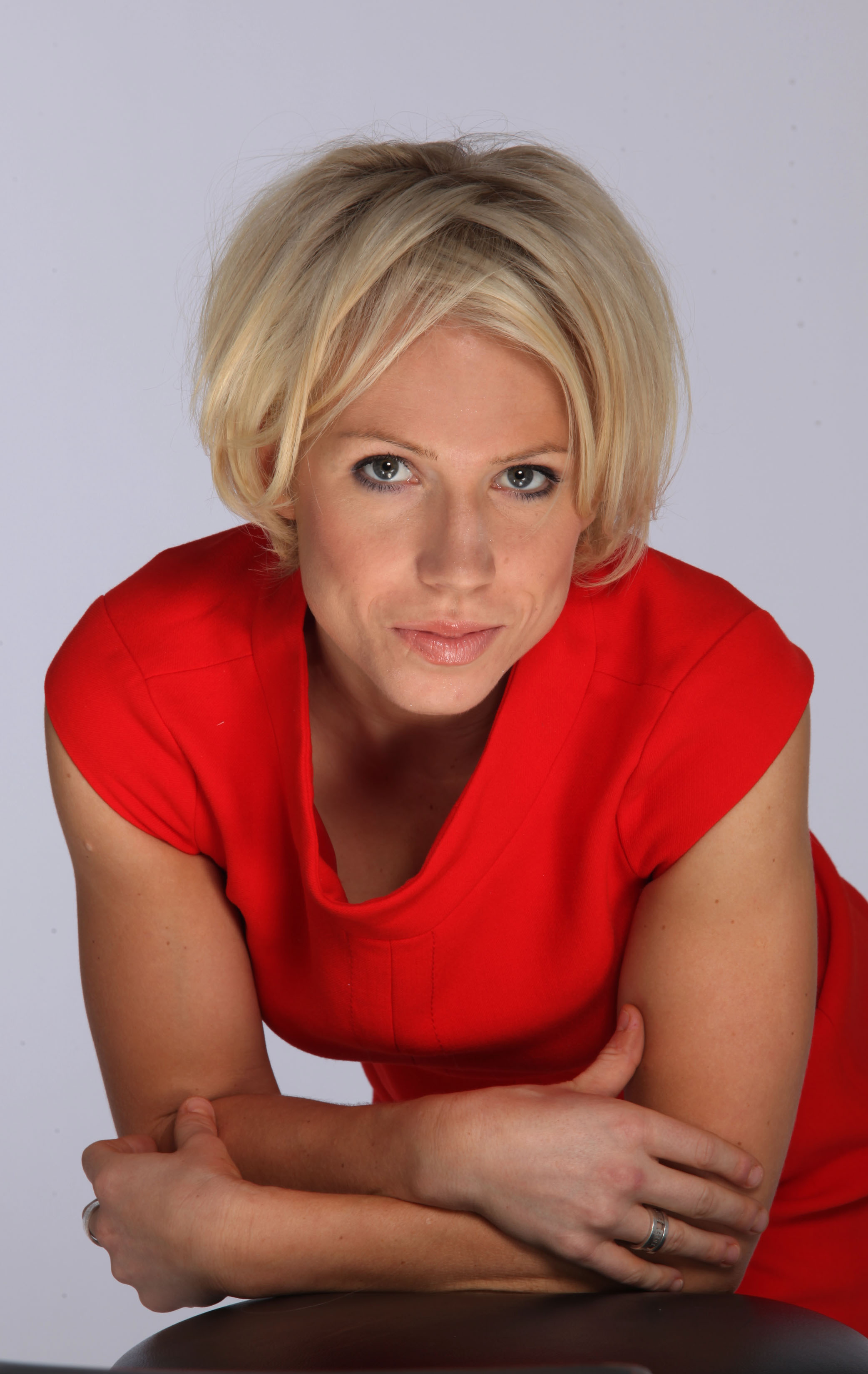 By-line image of Clemmie Moodie